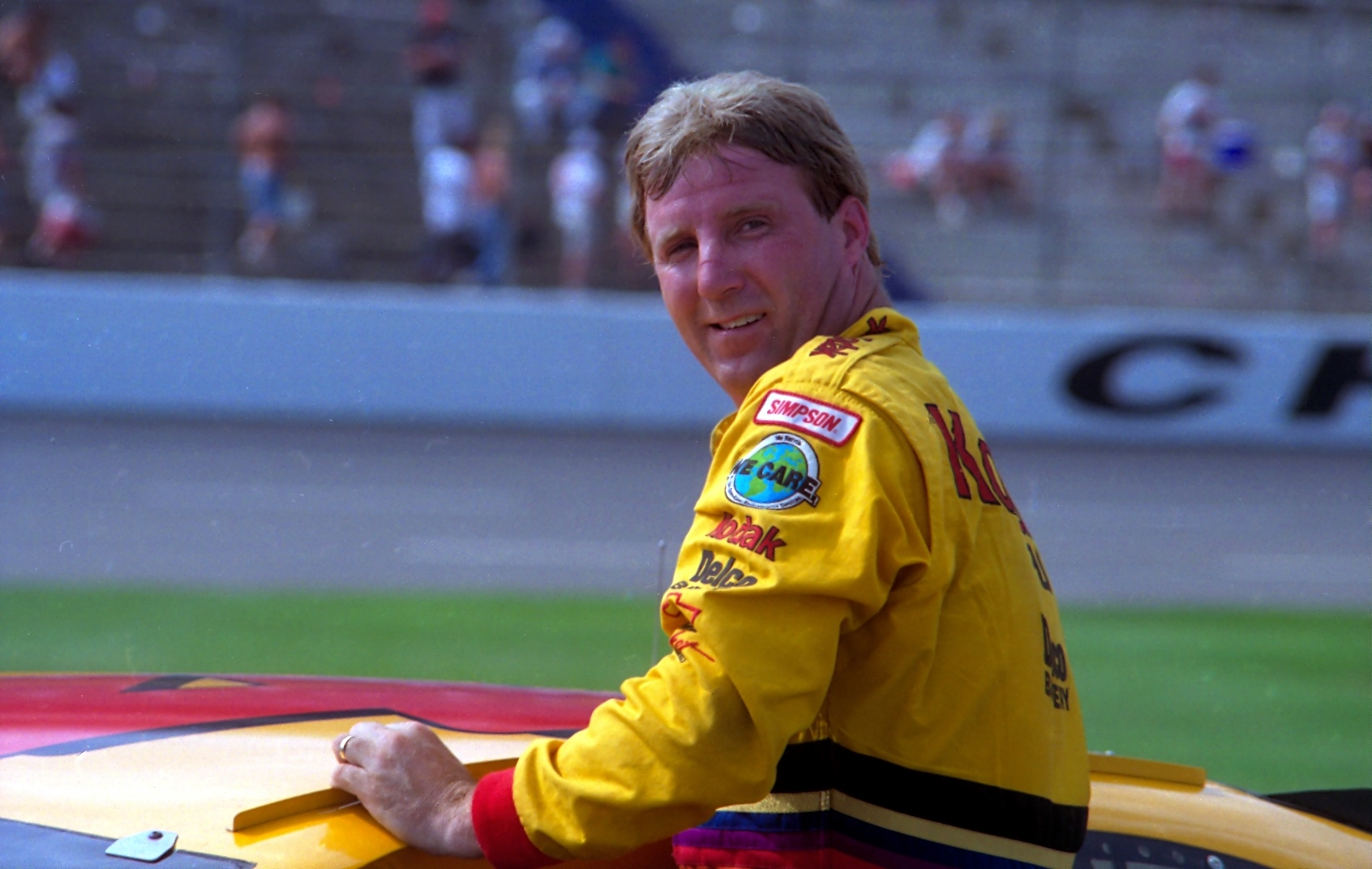 Retired NASCAR driver Sterling Marlin exits his race car in 1996.